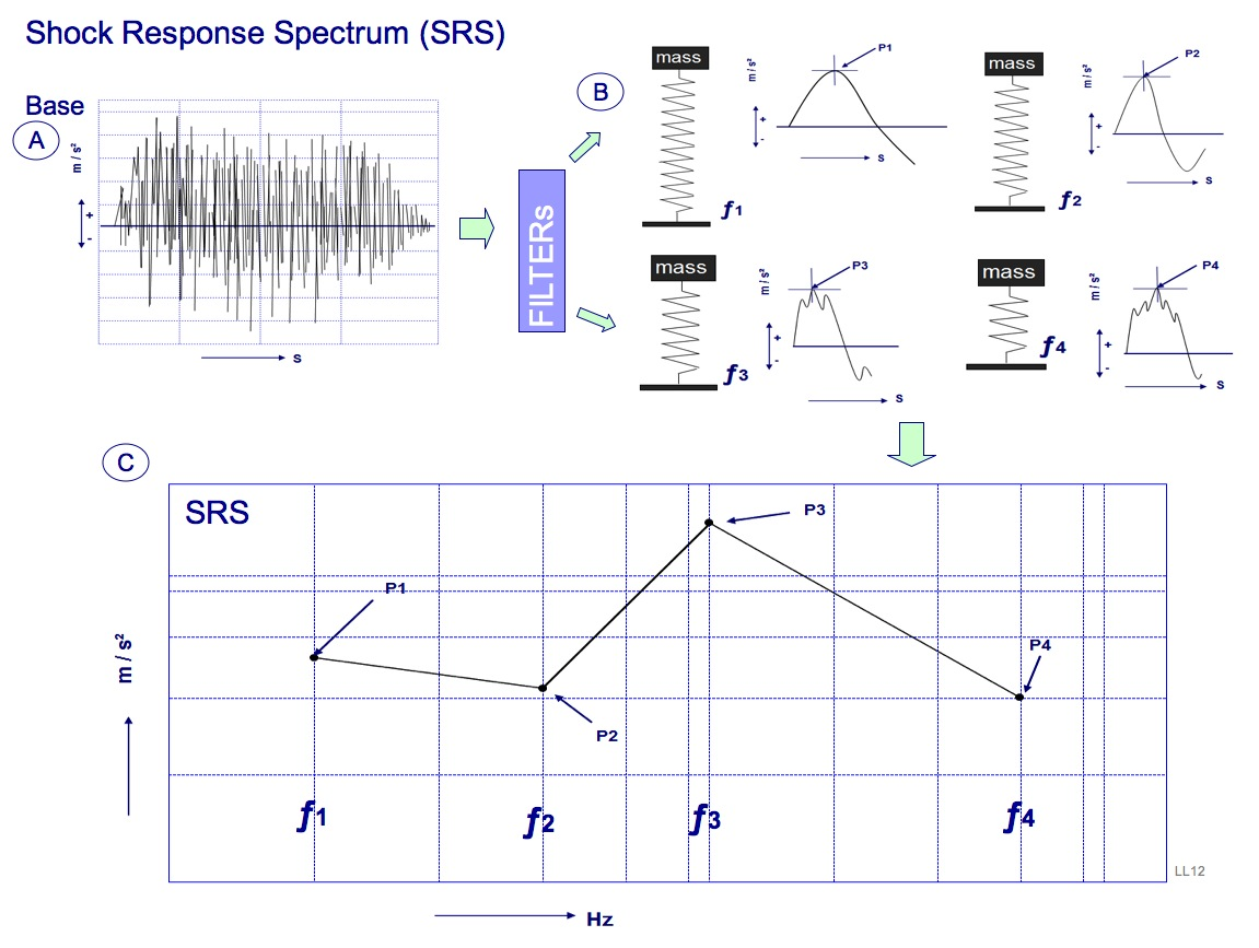 Shock Response Spectrum graphic. (A) Measured or calculated response on the system (on one frequency). (B) Several responses of the system (C) Potted response of the system.